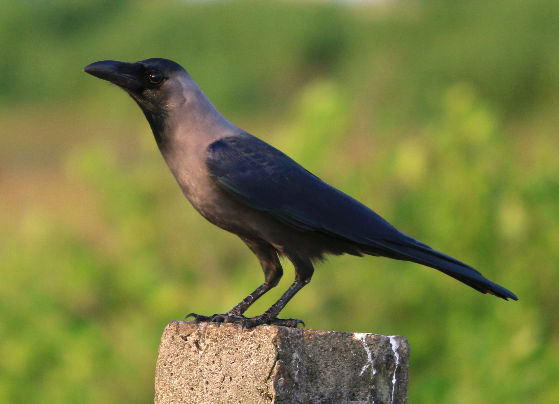 house crow ,Corvus splendens